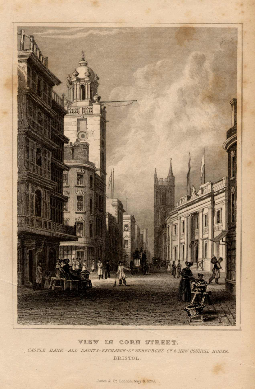 Printed engraving from 1829 of the view eastwards along Corn Street, Bristol, UK, showing the original position of St Werburgh's church on the north side of the road beyond the Register Office (then the Council House). Also shows All Saints' church (now the Bristol Diocesan Offices) on the south side of the road before the Corn Exchange building. In the foreground is Castle Bank on the south side of Corn Street, destroyed during the Bristol Blitz. The engraving also shows a street scene with numerous figures, market stalls, and a horse and cart.